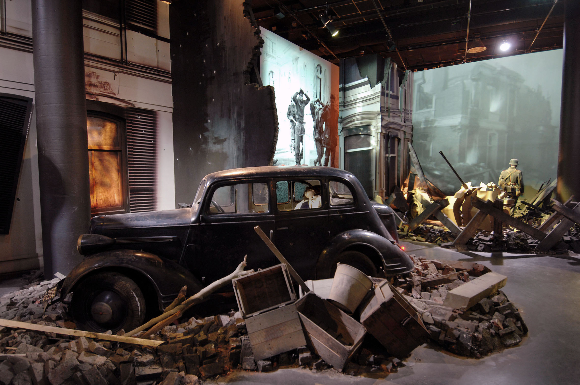 foto-opname van de Airborne Experience in Airborne Museum 'Hartenstein'